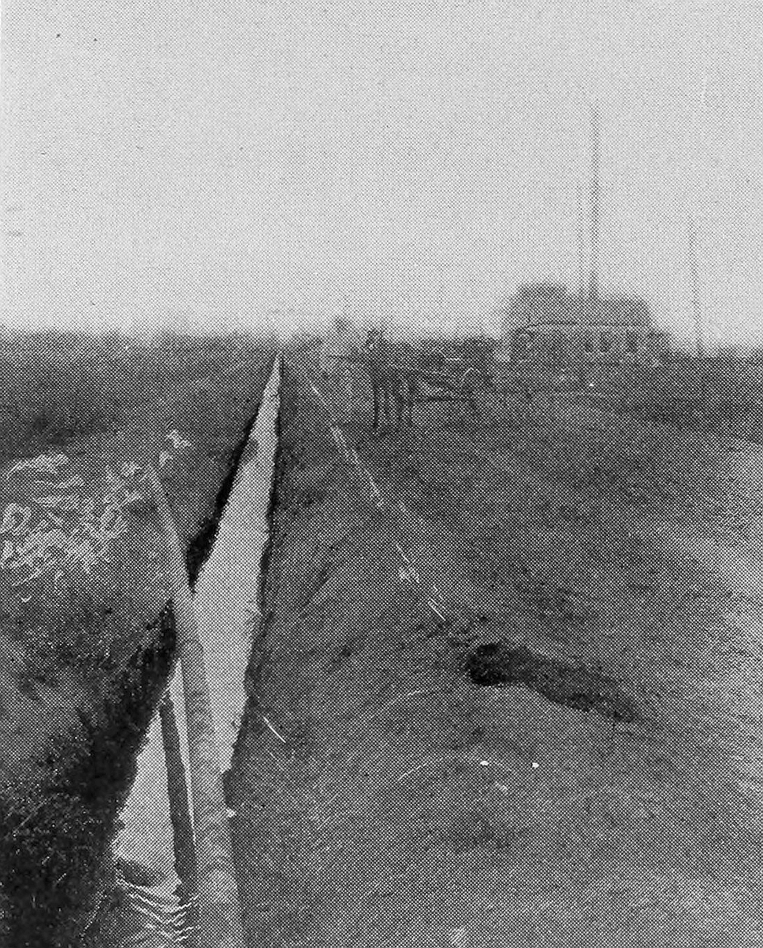 Oil flowing through an open ditch in Texas. Identifier: cassiersmagaz401911newy Title: Cassier's magazine Year: 1891 (1890s) Authors: Subjects: Engineering Publisher: New York Cassier Magazine Co. Text Appearing Before Image: THE GREAT REINFORCED CONCRETE OIL TANK NEAR SAN LUIS OBISPO, BEFORE THE ROOF WAS PUT ON, CAPACITY, 1,000,000 BARRELS CASSIERS MAGAZINE Text Appearing After Image: OIL FLOWING THROUGH AN OPEN DITCH IN TEXAS wells were opened. Two concretecircular reservoirs were constructednear San Luis Obispo, which are thelargest petroleum holders in Amer-ica. They are uniform in size, andeach covers no less than 6y2 acres ofground, having a capacity of 1,000,-ooo barrels. In the construction of this TankFarm, as the group of reservoirs istermed, some very interesting engi-neering plans have been carried outto insure the necessary strength towithstand the great lateral pressureand to give durability of construc-tion in each reservoir. The wall isa cantilever type of retaining barrier,built circular, with radius of 300feet 3 inches. The wall stands free,without buttresses, is 20 feet high and17 feet at base, covered by a woodenroof supported by posts which rest onconcrete footings. The floor is 2^inches thick, and slopes to the cen-tre, where a sump is built with anoutlet pipe for purposes of drainage.The sump is three feet lower thanthe base of the wall. The r